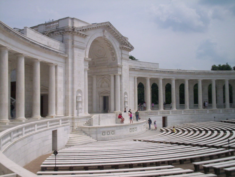 Arlington National Cemetery Amphitheater, Arlington, Virginia, United States.